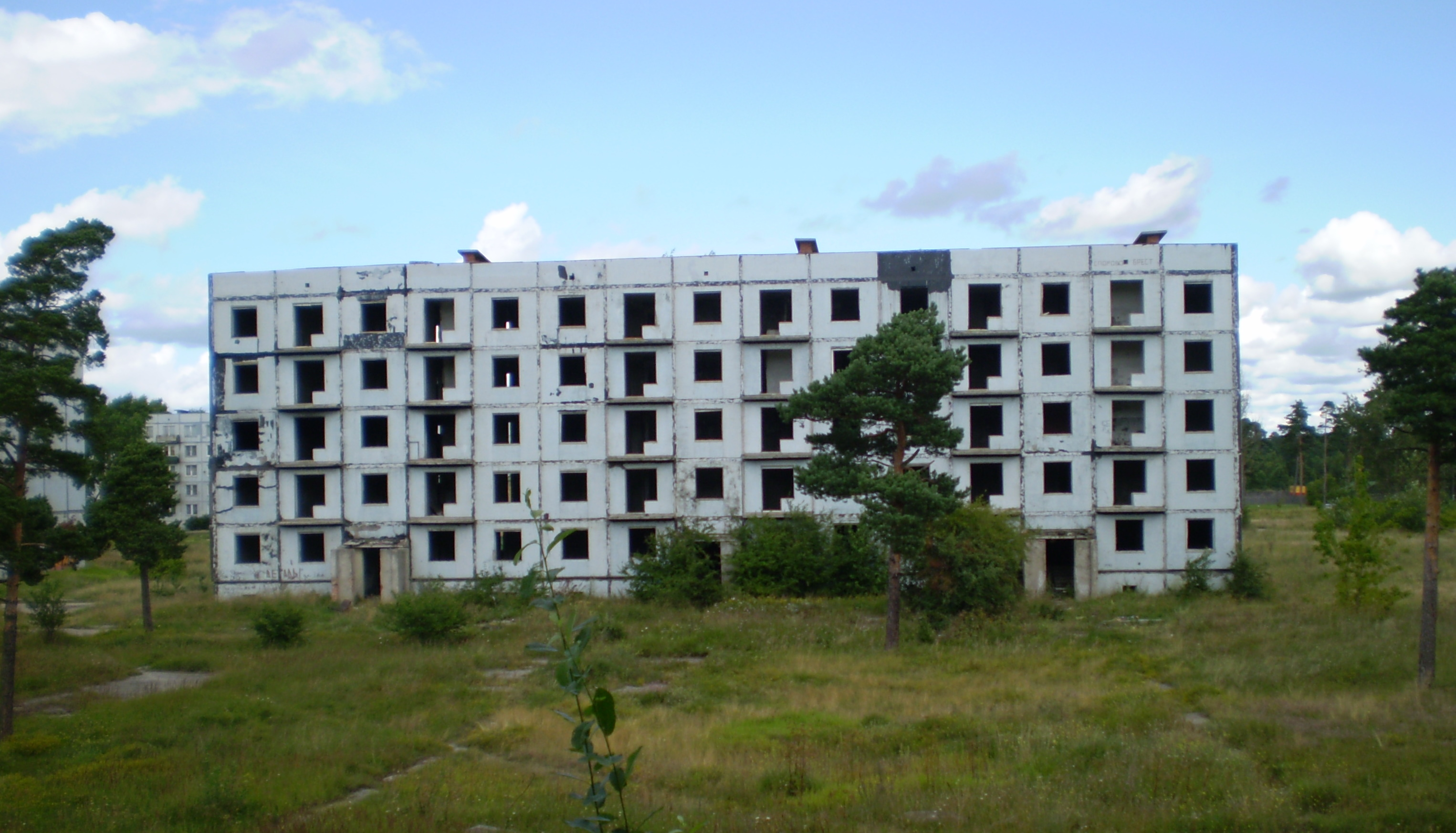 An abandoned house near the Karosta prison museum in Liepaja, Latvia.